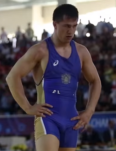 Roman Vlasov at the 74kg Greco-Roman Wrestling Championships, Tashkent, September 2014